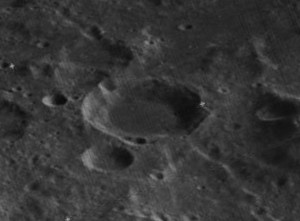 Oblique view of Pogson crater, on the far side of the moon, facing roughly south.